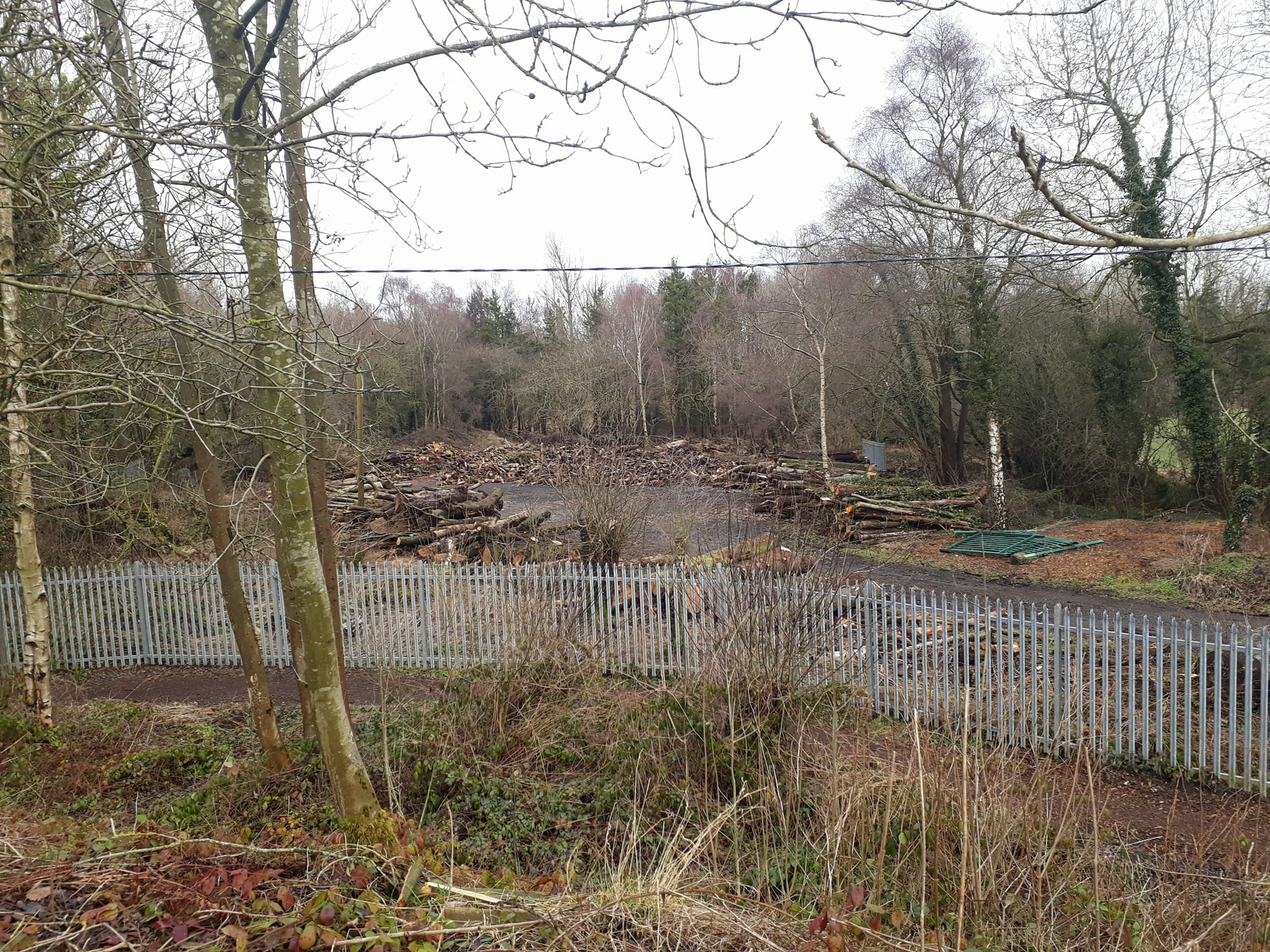 My own.